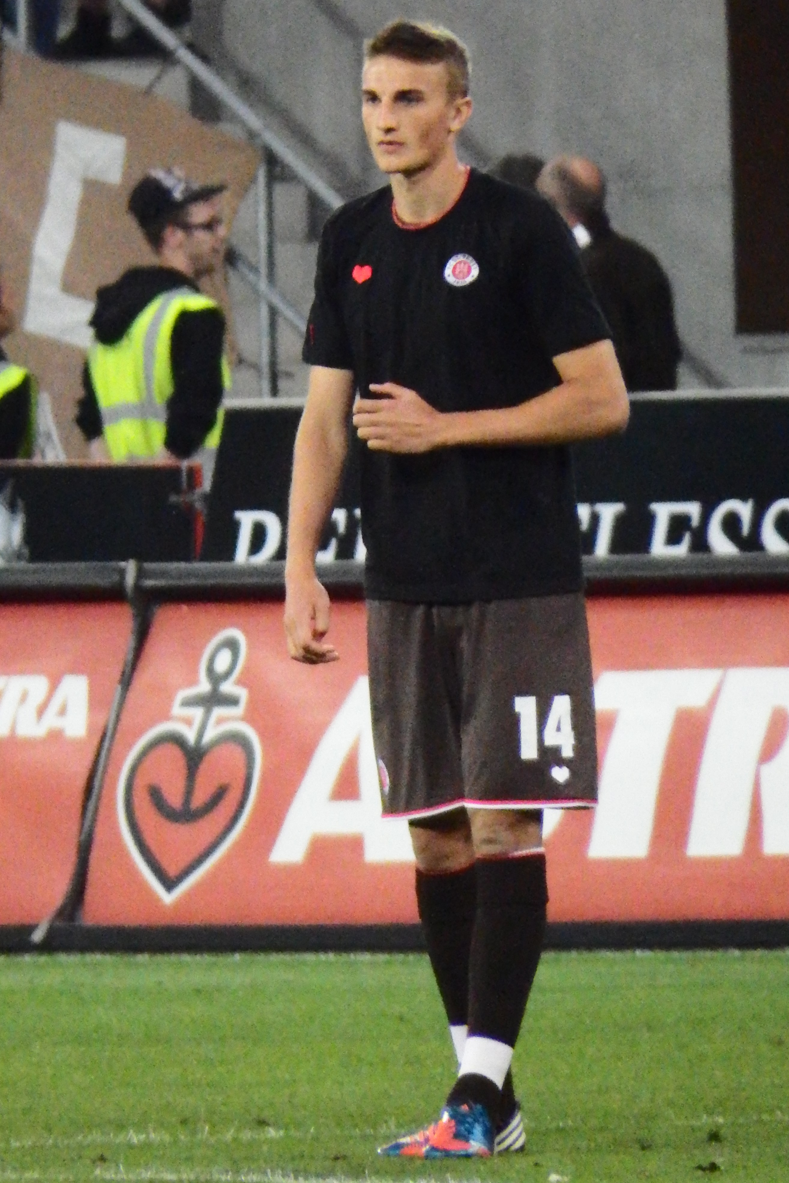 Philipp Ziereis as Player of FC St. Pauli